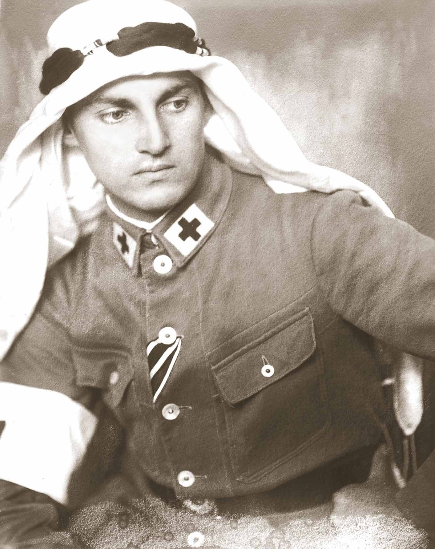 Armin T. Wegner, 1916 in Bagdad